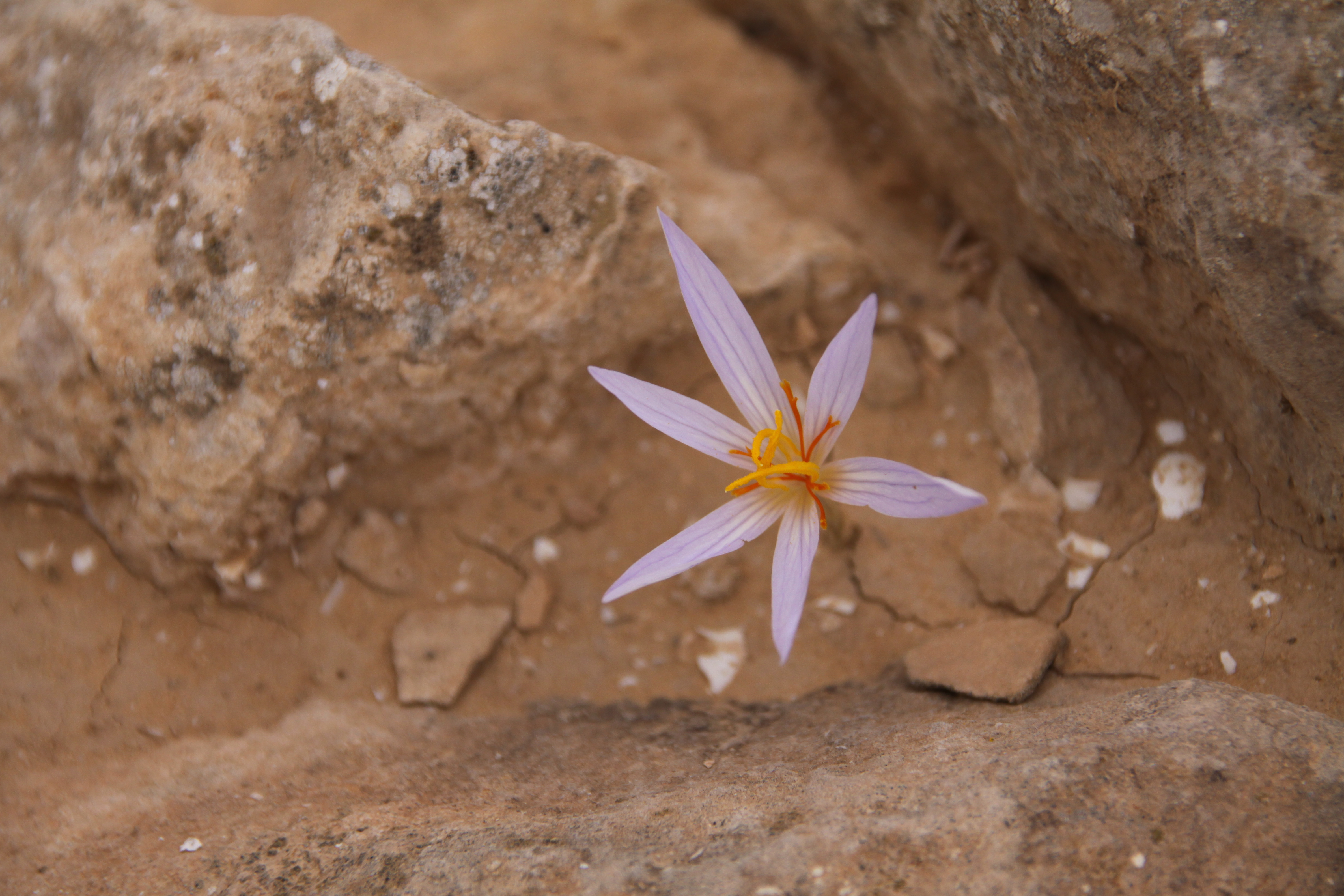 Crocus damascenus (Crocus cancellatus subsp.) flower, top view. Mount Ramon, Israel. It is believed that the Crocus damascenus in this area (Negev, Israel) is a sub-specie of Crocus damascenus, endemic to the area.